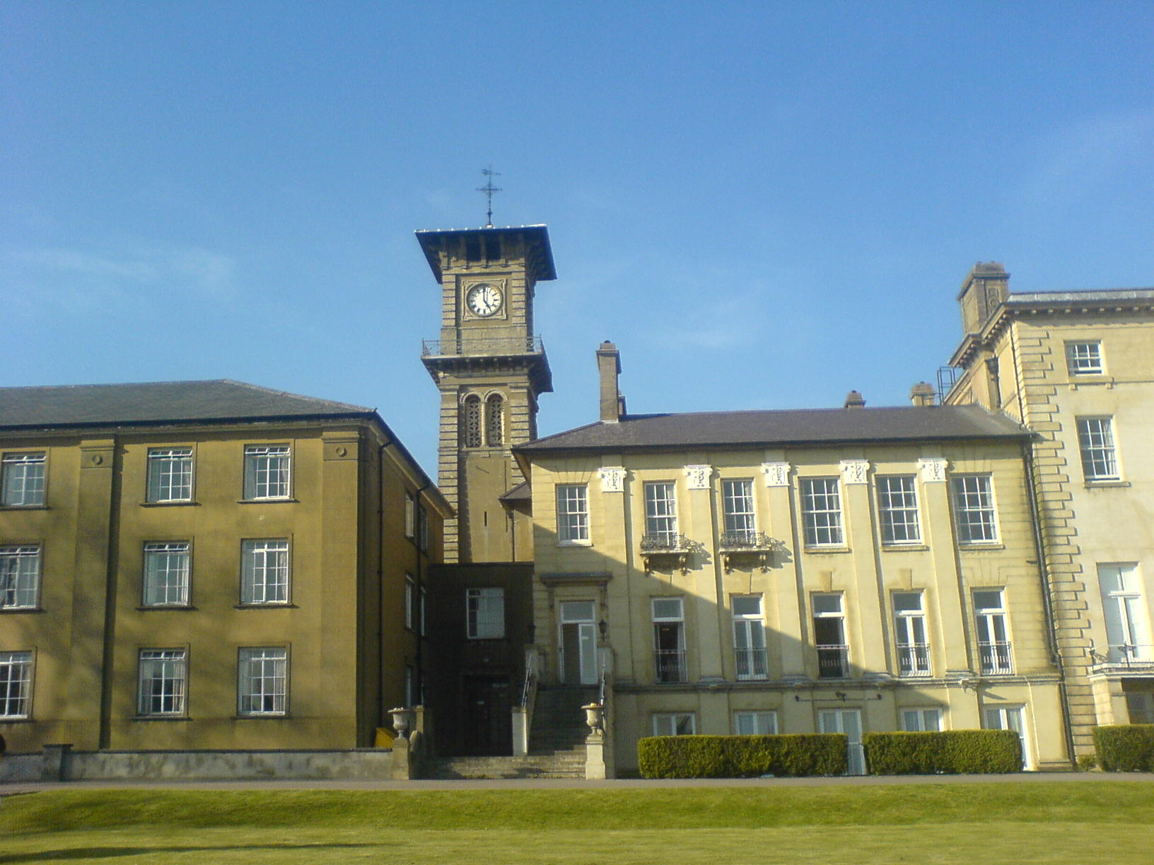 My own picture of front of raf bentley priory